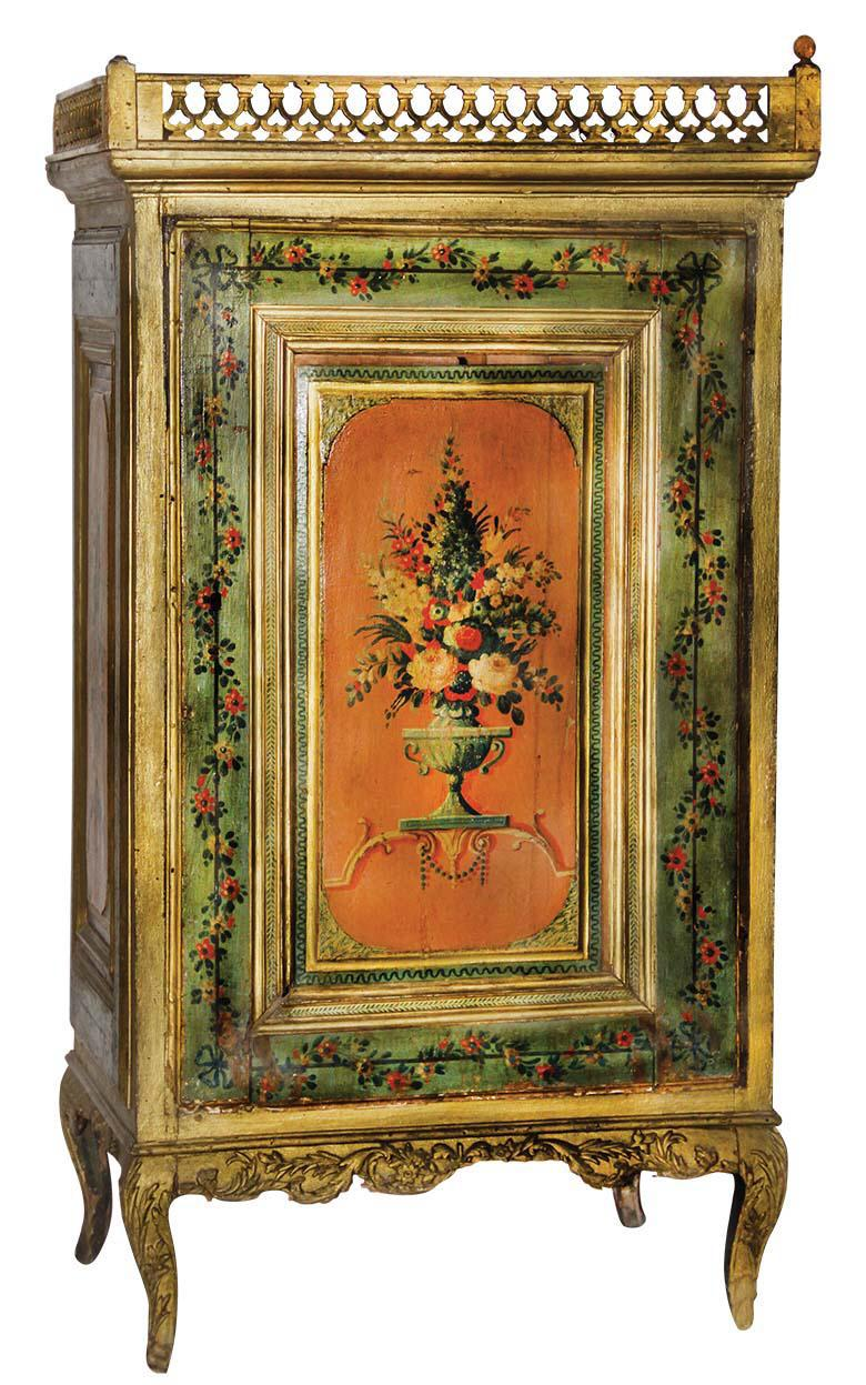 Aa 18th century Edirnekari drawer from Edirne Museum